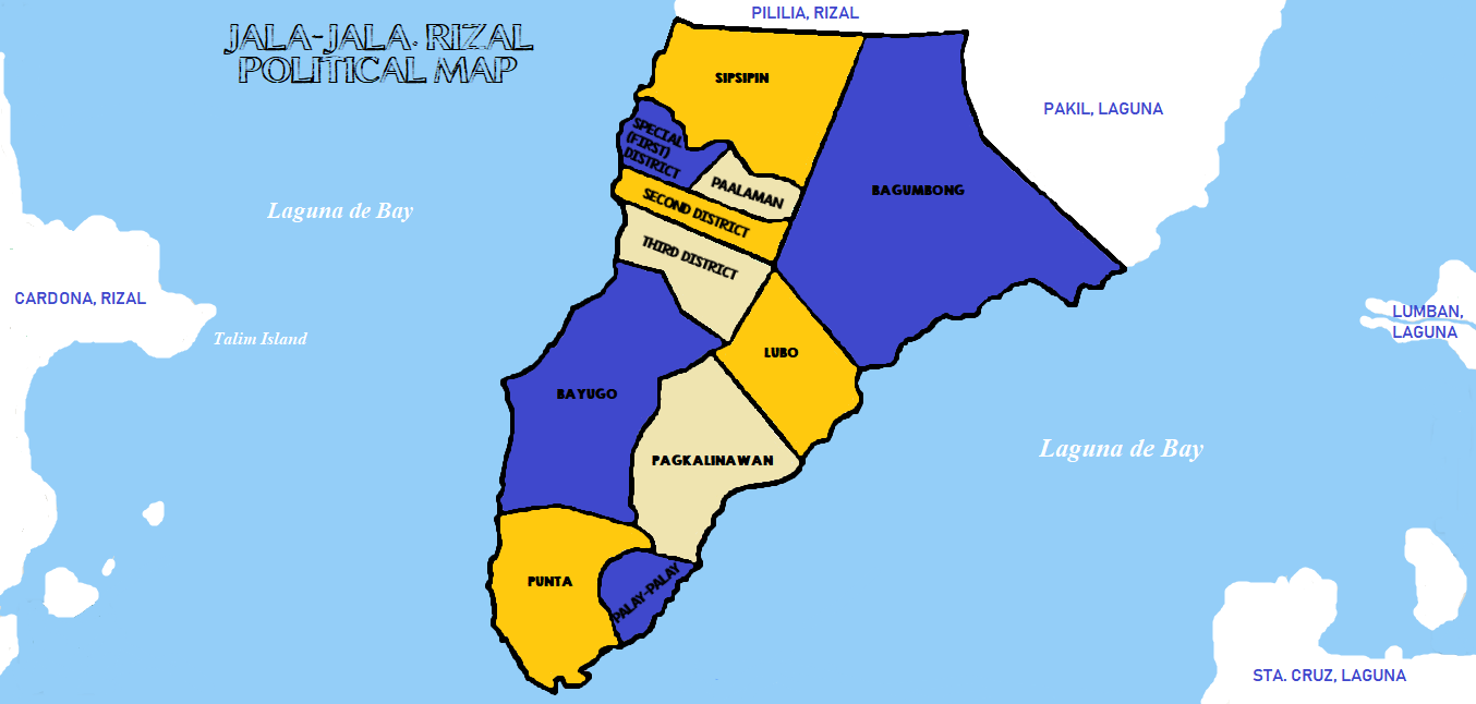 This shows the barangays in Jala-Jala, Rizal and the adjacent municipalities in the area